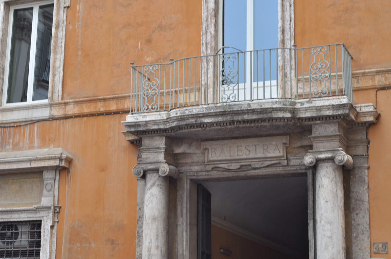 Rome, Italy